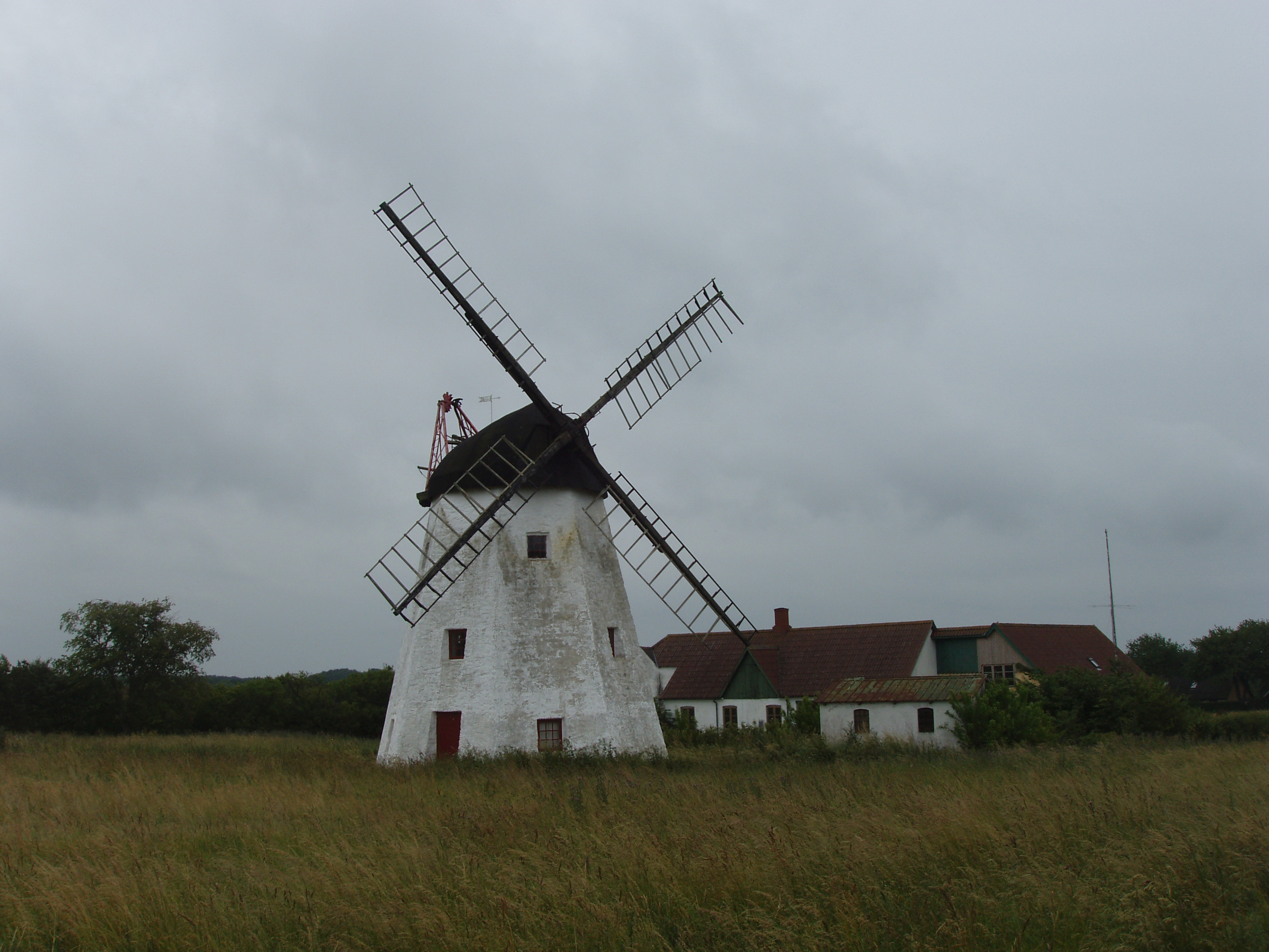 Windmill Myreagre Mølle near Åkirkeby Bornholm